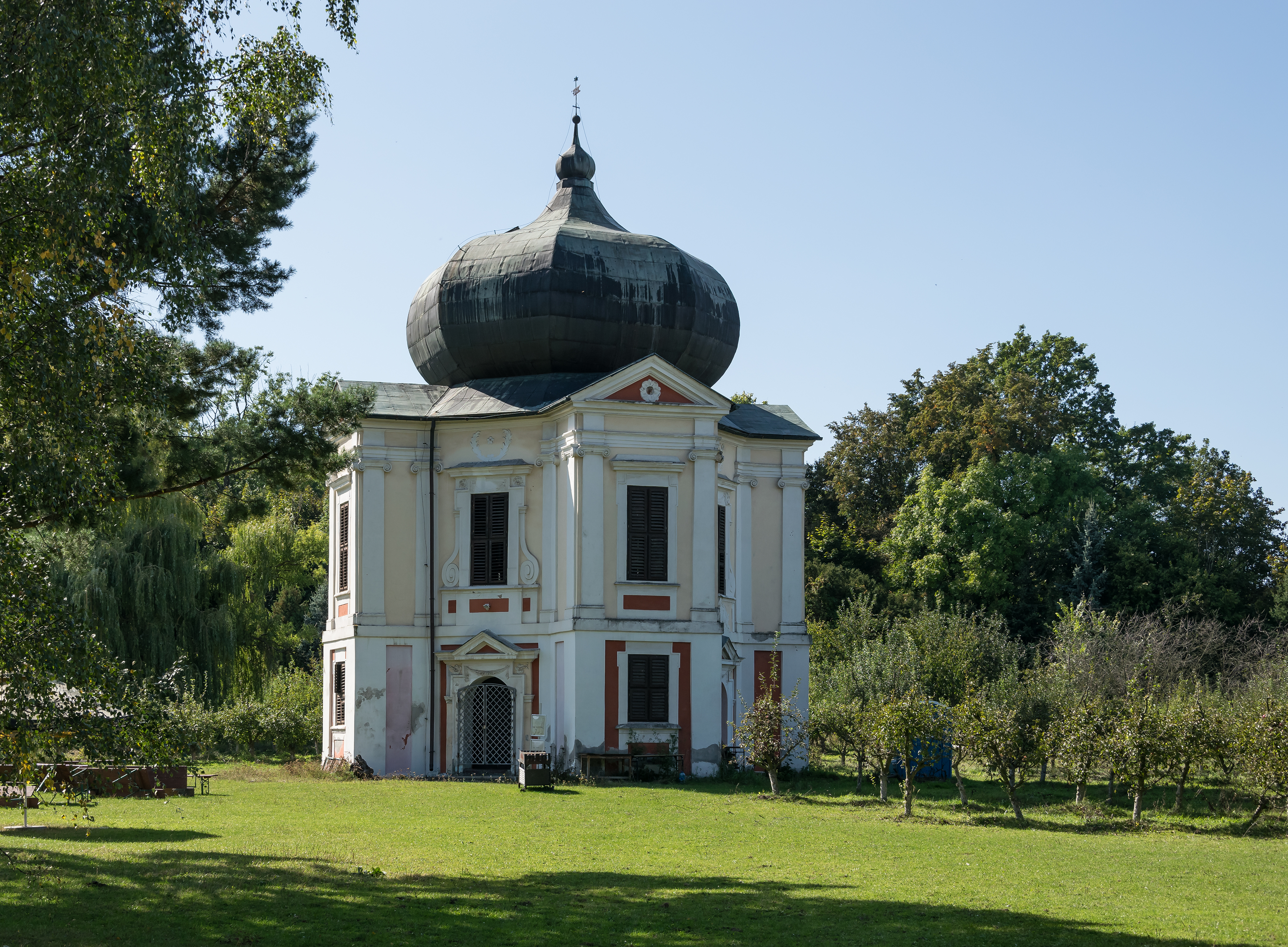 Garden pavilion in Henryków